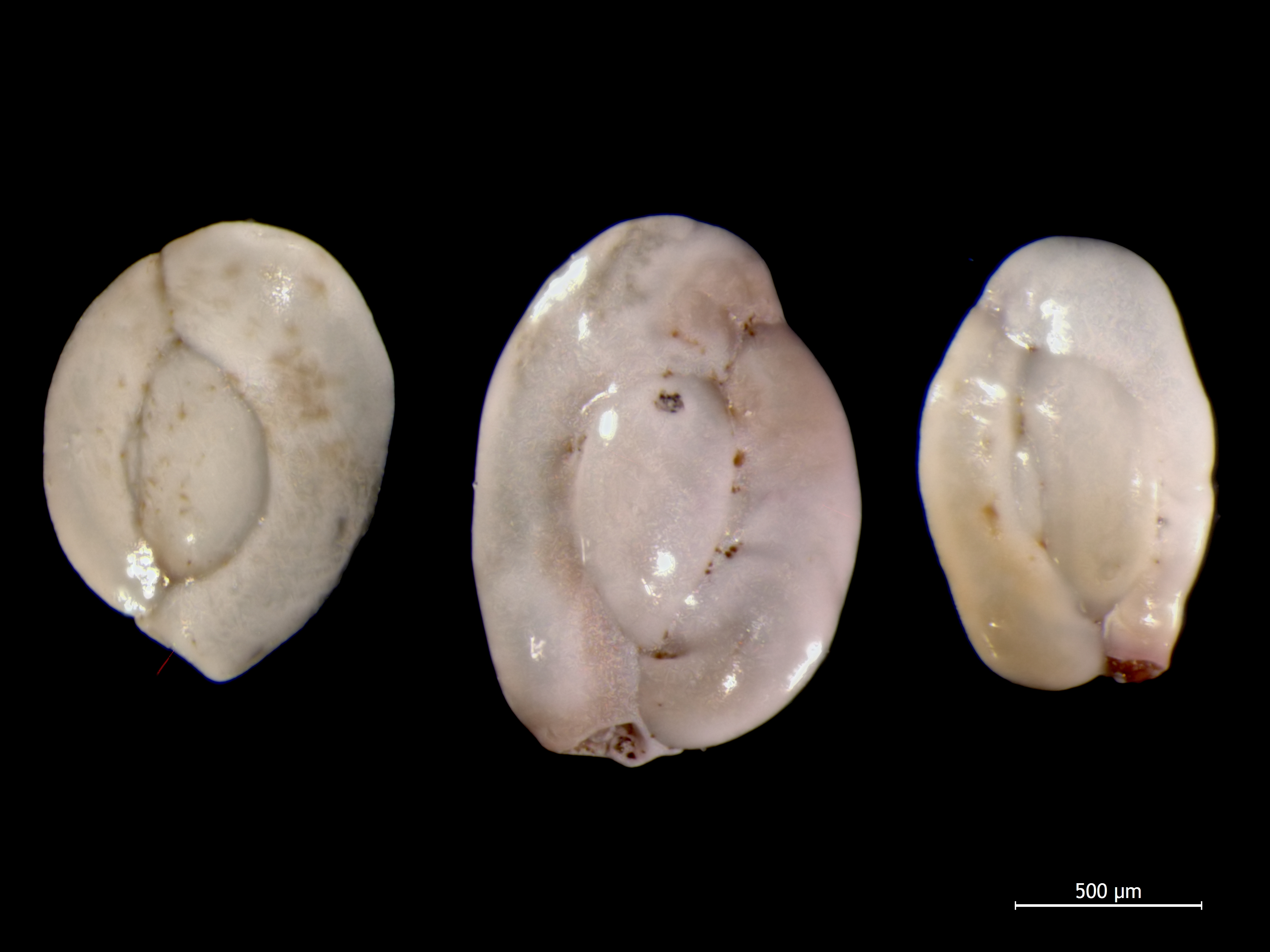 Benthic forams, taken with a Leica DFC 490 camera mounted on a Leica M205C binocular microscope. Collected in 2011 at 51°42′32.88″N 2°27′3.98″E / 51.7091333°N 2.4511056°E on the edge of the Belgian part of the North Sea. Height = ~1100 µm Focus stacking of 29 pictures.